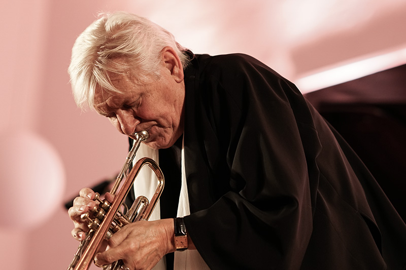 Palle Mikkelborg Jazzy Days 2017. Det Evige Øjeblik: Palle Mikkelborg, Helen Davis, Carsten Dahl og Ayi Solomon